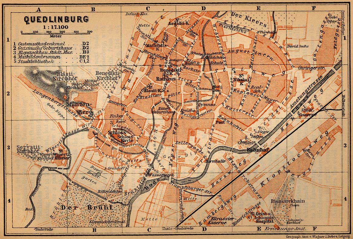 Map of Quedlinburg in 1910